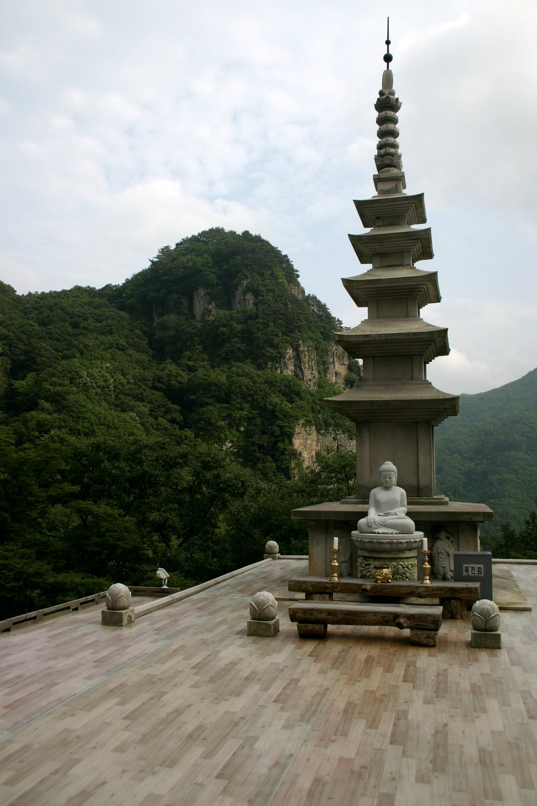 A view of Cheongnyangsa, Bonghwa County, Gyeongsangbuk-do, South Korea